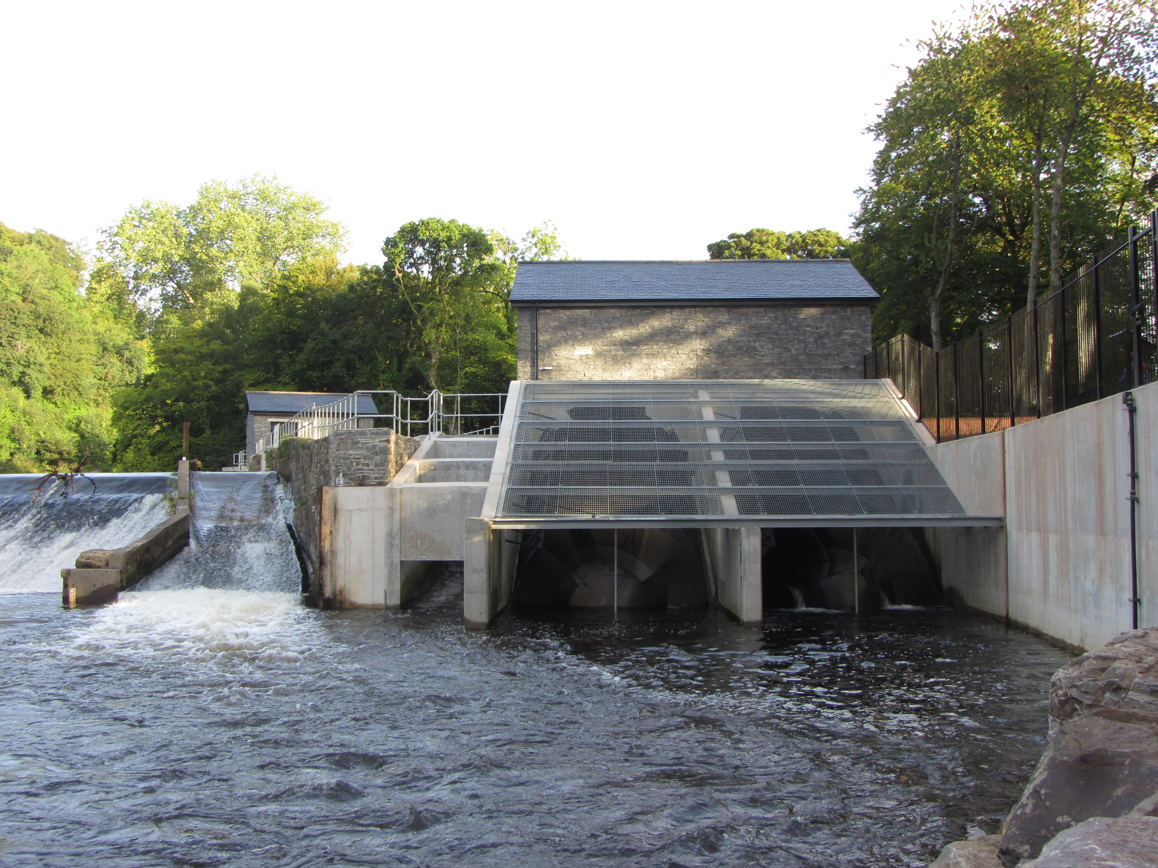 Radyr weir hydro scheme. Looking towards the Archimedes' screws on the recently installed Radyr weir hydro scheme on the River Taff. (max 2 x 200 kW, diameter 3.5 m, headh height ~3.5 m, flow ~22 m³/s source [1])